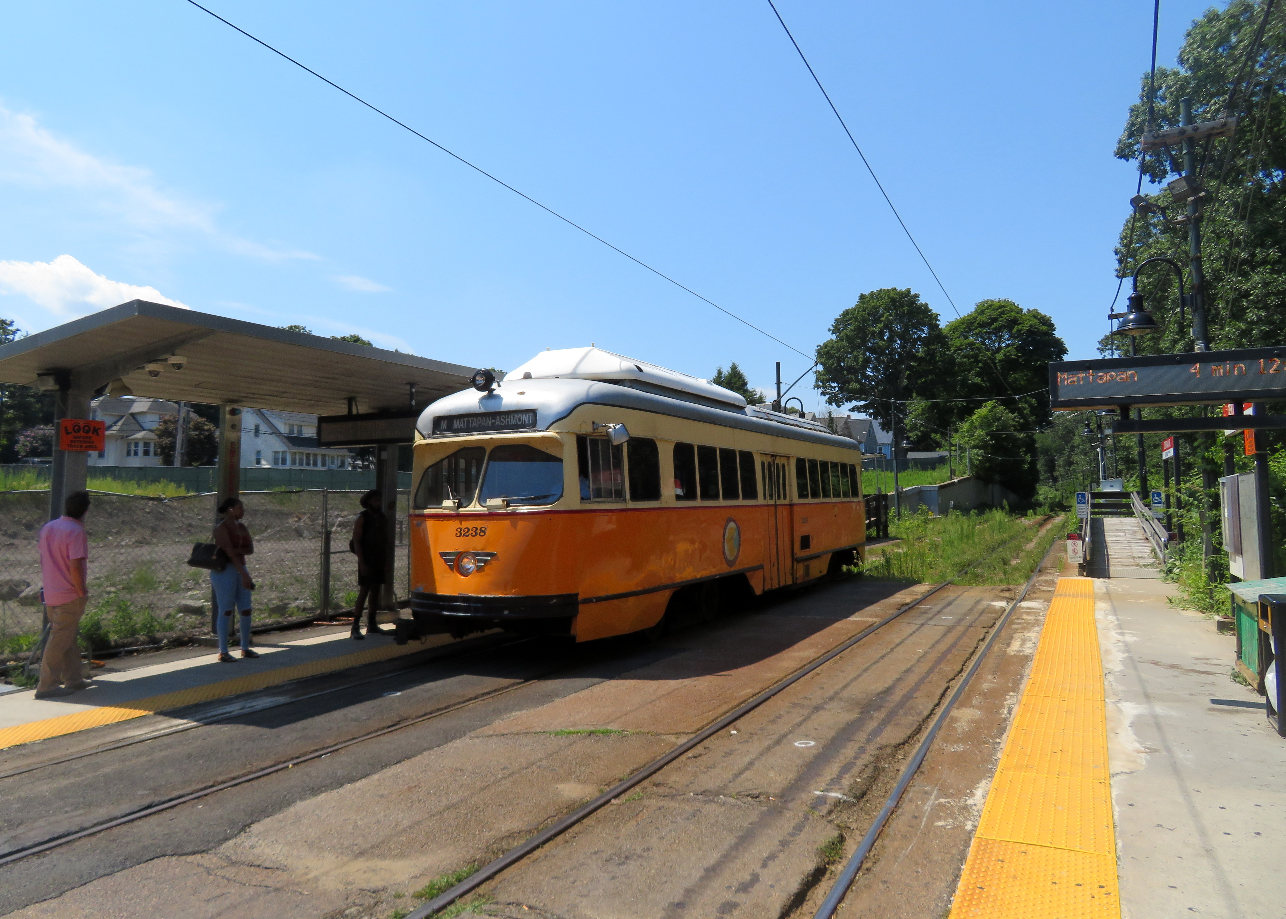 An inbound streetcar at Central Avenue station in July 2019